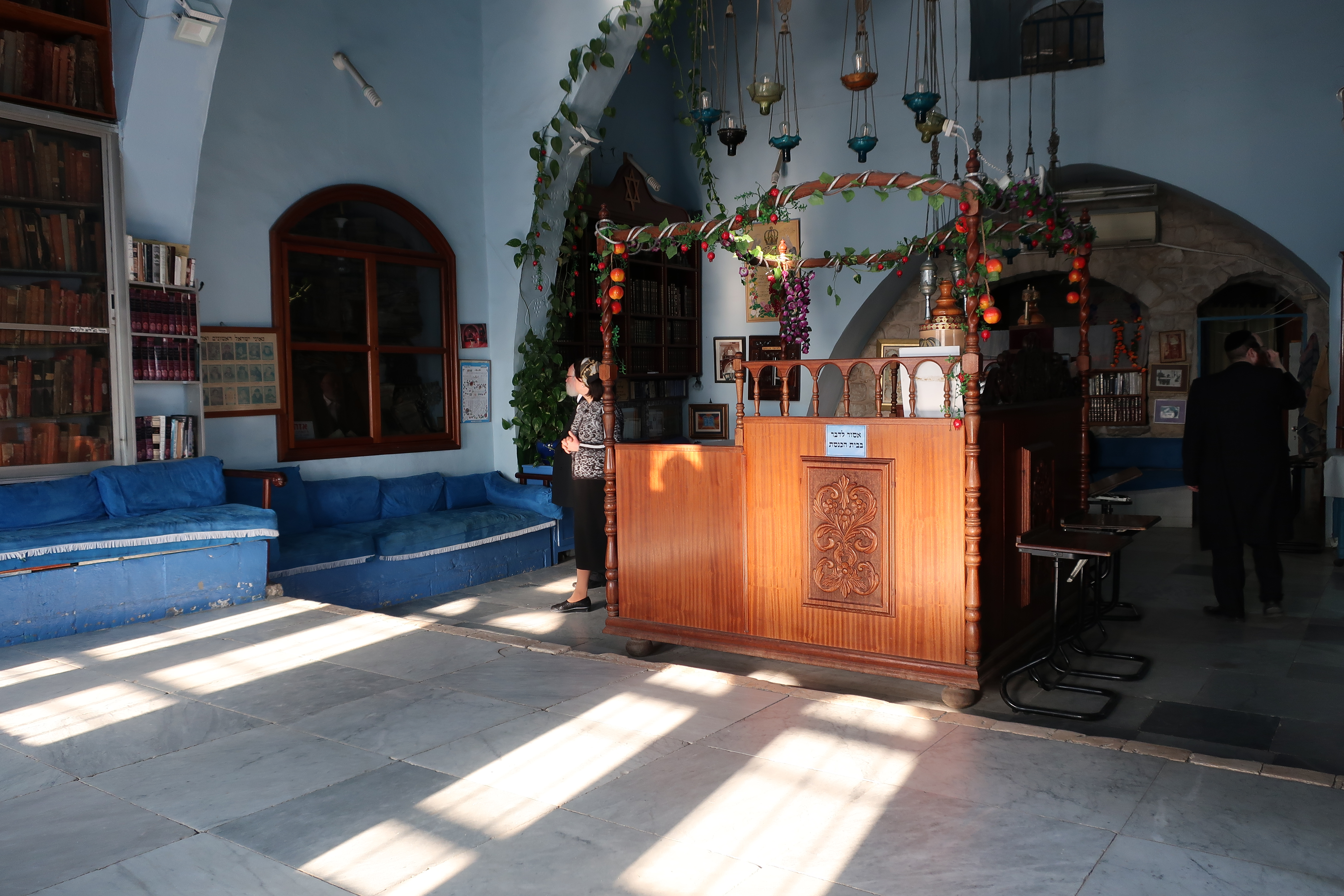 Refurbished synagogue of Maran, R. Joseph Karo, in Safed.